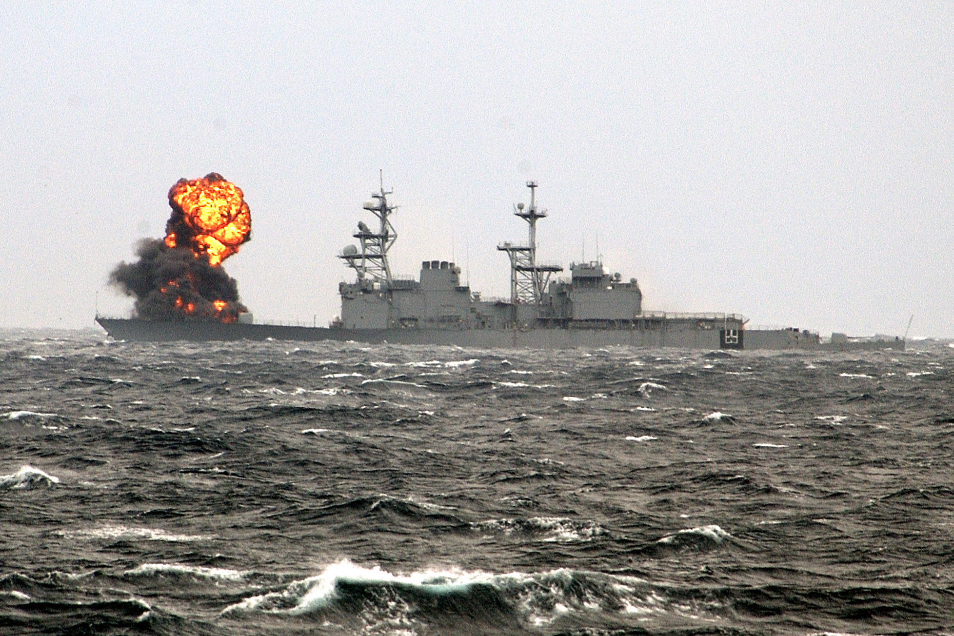 Atlantic Ocean (Nov. 12, 2004) – The decommissioned destroyer Hayler (DD 997) takes fire from a 57mm Bofors gun aboard the Canadian Halifax-class multi-role patrol frigate HMCS Ville De Quebec (F 332), during a Sink Exercise conducted 300 miles off the East Coast of the United States. Ville De Quebec is currently participating in NATO's Maritime Response Force commonly referred to as Standing Naval Force Atlantic (STANAVFORLANT). STANAVFORLANT is the world's first permanent peacetime multinational naval squadron. Hayler was the last Spruance-class of destroyers built by the Navy, and was decommissioned on Aug. 25, 2003. All decommissioned ships receive a thorough inspection by the EPA before sinking, and will now act as an artificial reef for deep-sea marine life. The sinking of these ships provides unique weapons training opportunities. Photo courtesy Canadian Navy by Master Cpl. John Mason (RELEASED)